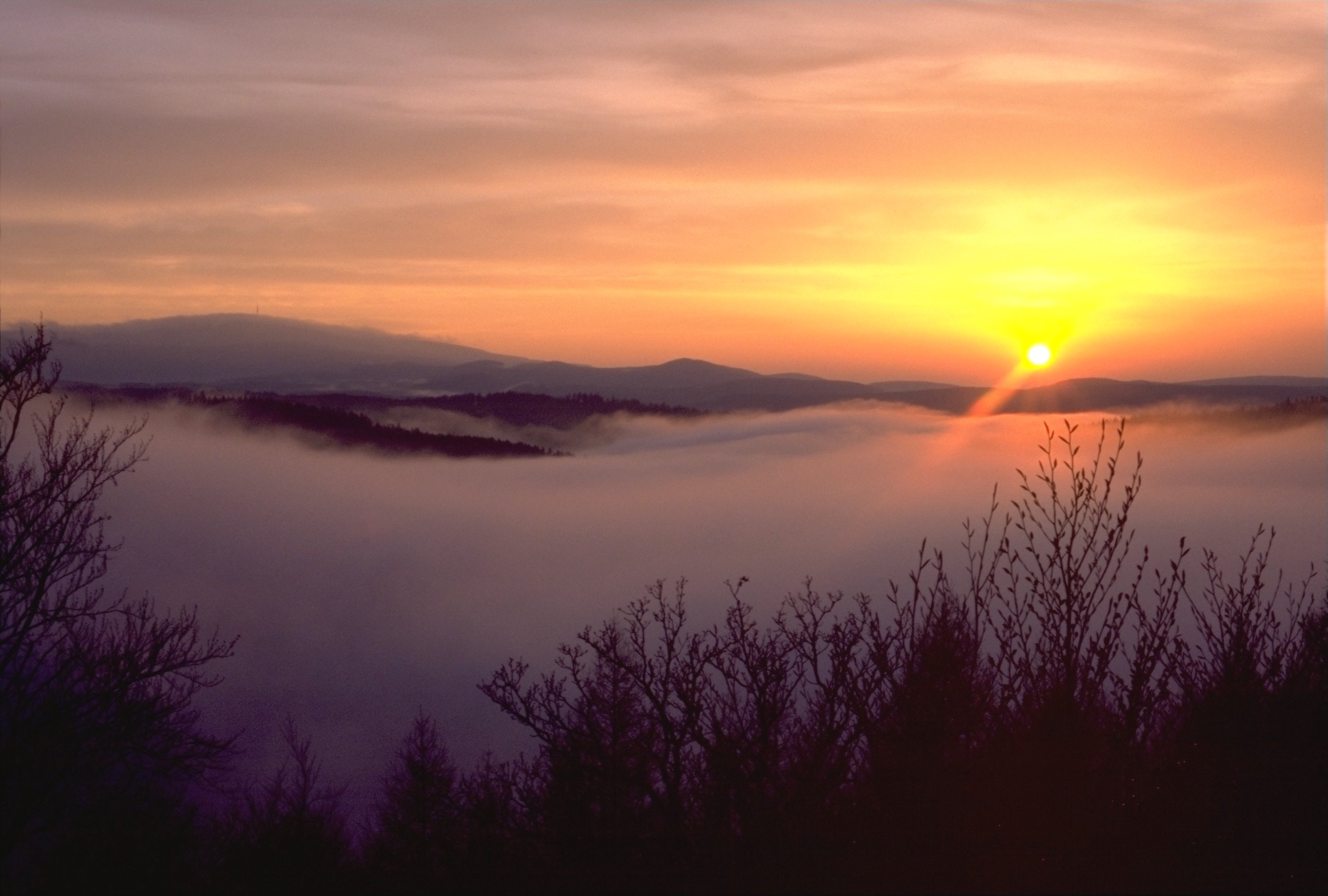 View to Brocken from Scharfenstein, "Kaltes Tal" covered with fog, sun set, Harz, Germany Photo was taken using the following technique: Film: Fuji Velvia Lens: Minolta 2.8/28 Filter: none Body: Minolta 9000 Support: Manfrotto 190B Image with Information in English Bild mit Informationen auf Deutsch